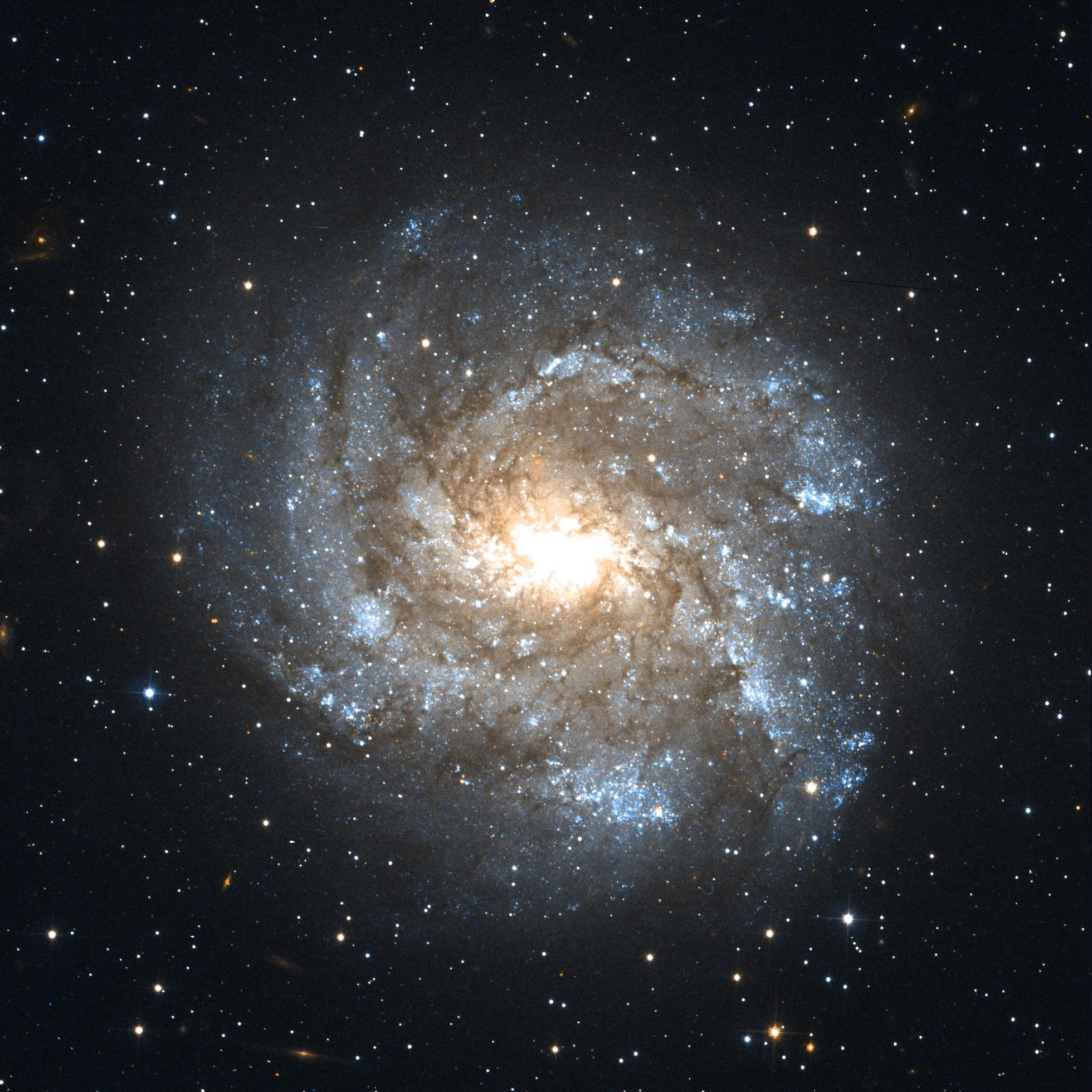 NGC 2082 galaxy by Hubble Space Telescope; 1.63′ view